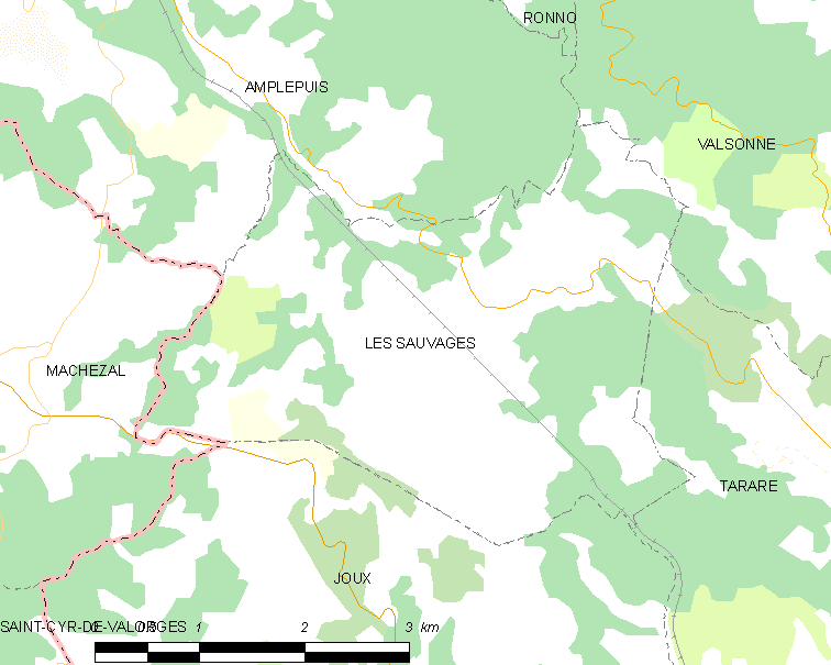 Map of French municipality